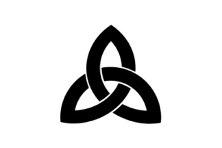 Flag of Sango Nara